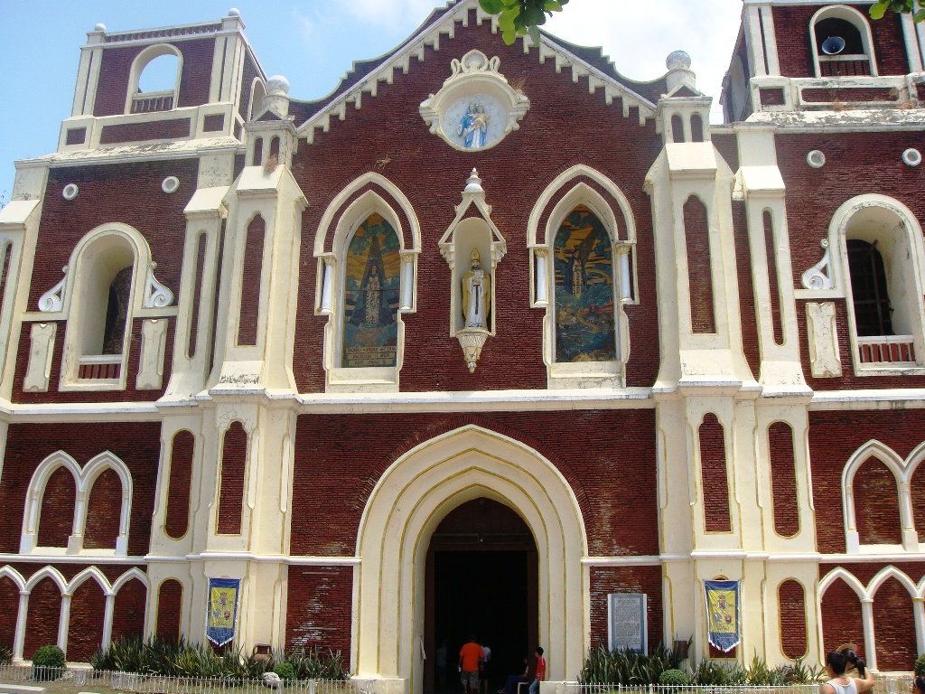 Shrine of Our Lady of Charity